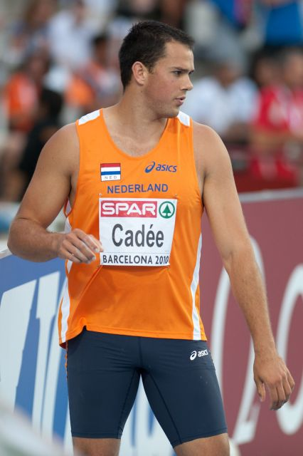 Erik Cadée at the 2010 European Athletics Championships in Barcelona